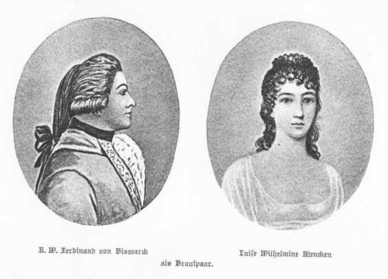 Parents of Otto von Bismarck